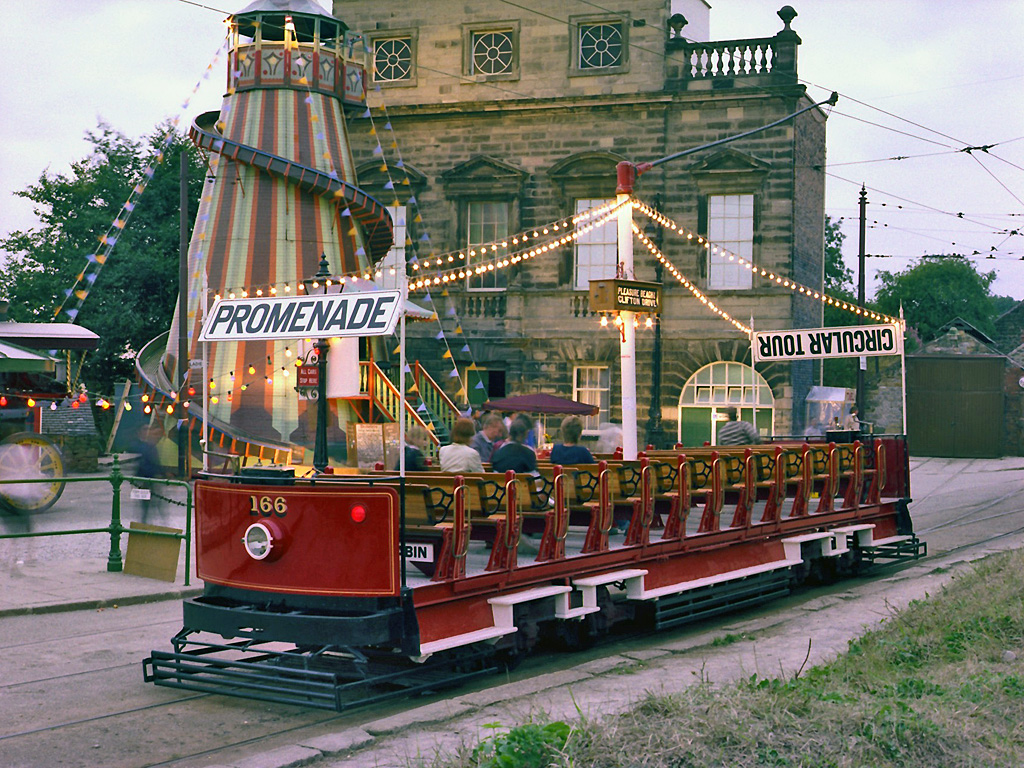 Blackpool Corporation Transport car number 166, a Blackpool Corporation Transport single deck bogie car with The McGuire Manufacturing Company Limited equal wheel bogies, two The British Thomson-Houston Company Limited GE52 27 horse power motors and The British Thomson-Houston Company Limited B18 controllers with a Blackpool Corporation Transport 64 seat open top toast rack body built 1927 at Town End terminus at the National Tram Museum, Crich. Sunday 28th August 1983.